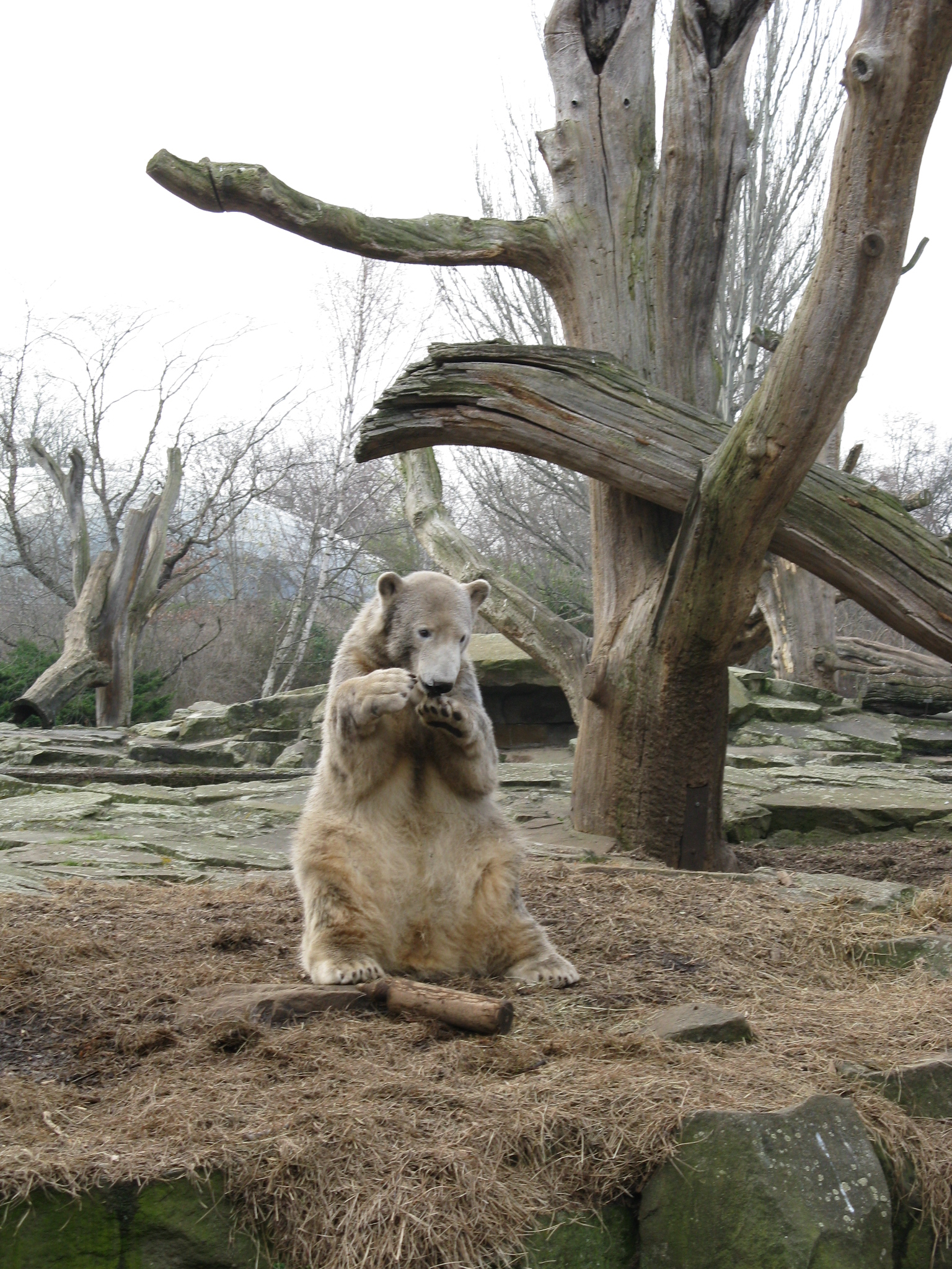 polar bear "Knut", Berlin Zoo, at the age of nearly 1 1/4 years